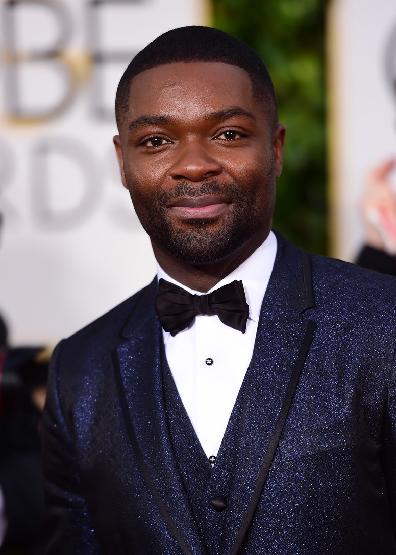 January 11th, 2015 — Golden Globe Awards